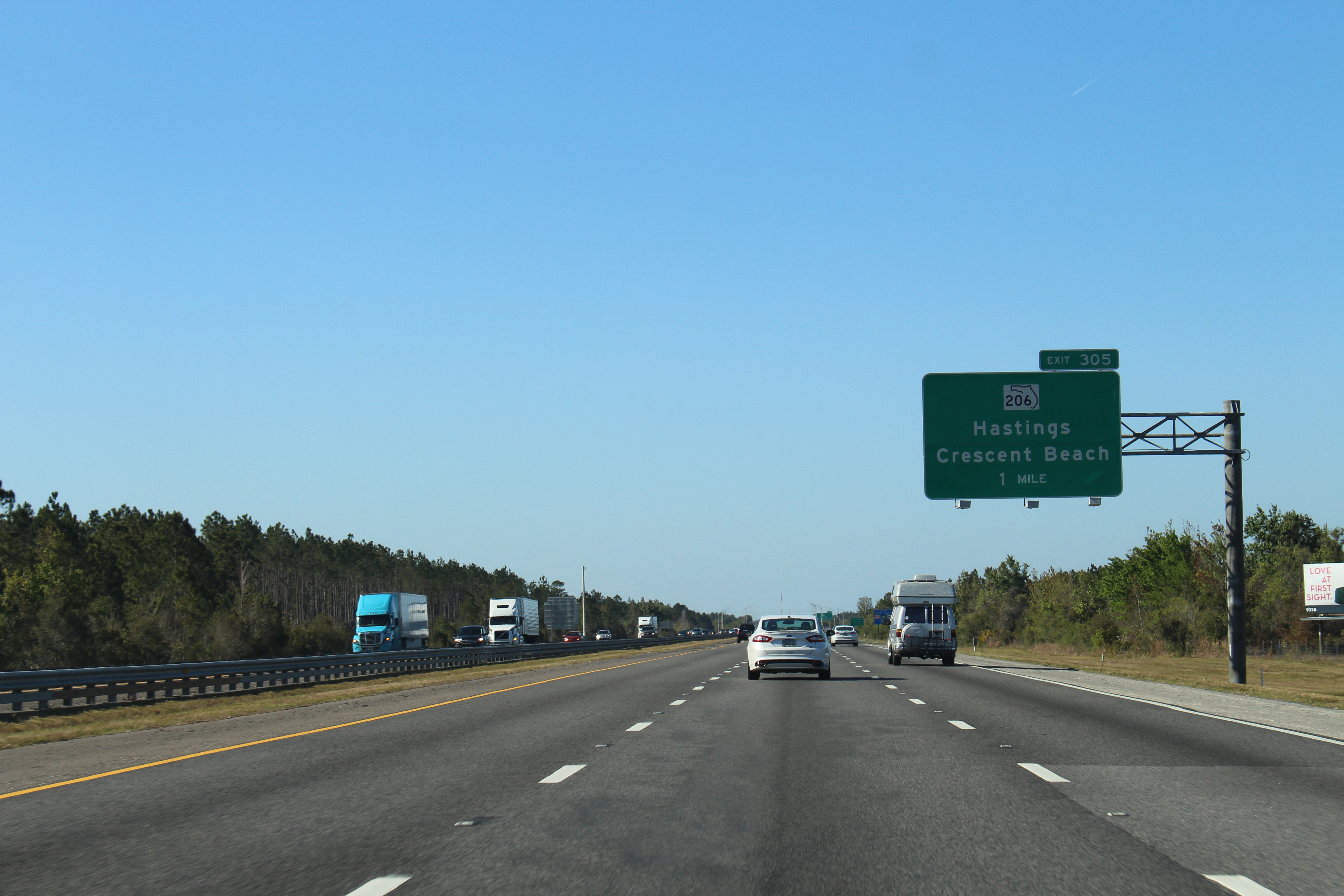 Florida I95nb Exit 305 1 mile, St. Johns County, Florida